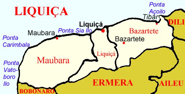 Subdistricts of District of Liquiçá/East Timor.